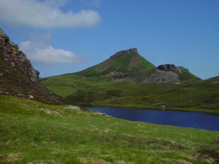 Dun Caan from Loch na Mna on Raasay, Scotland Photograph taken June 2003 by Mike Hansen.